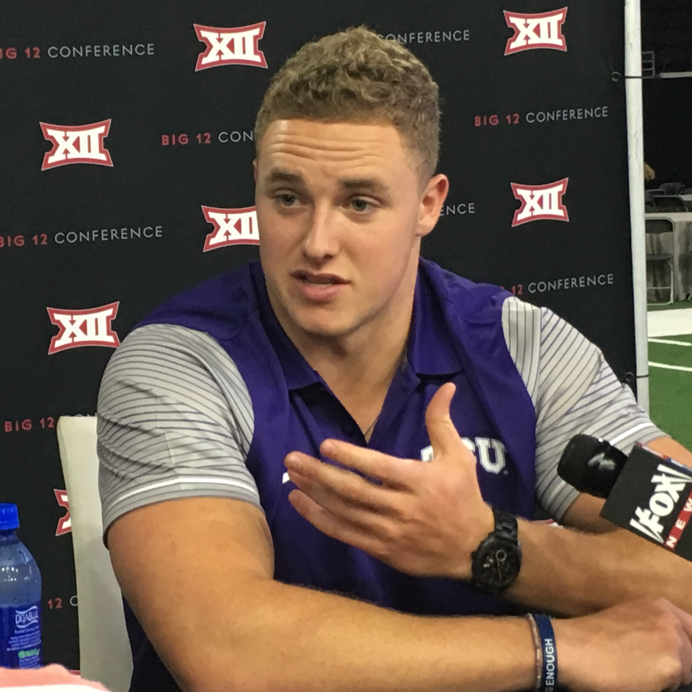 Ty Summers, linebacker for the TCU Horned Frogs football team, at the 2017 Big 12 Conference Media Days in Frisco, Texas.